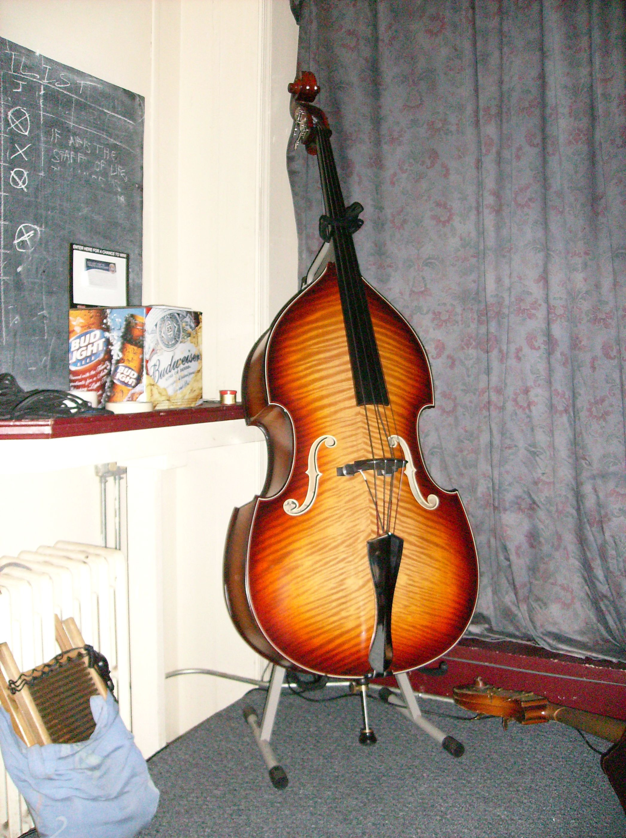 Fiddle bass used by bluegrass musicians at Uncle Charlie's Smokehouse in Crozet, Virginia.